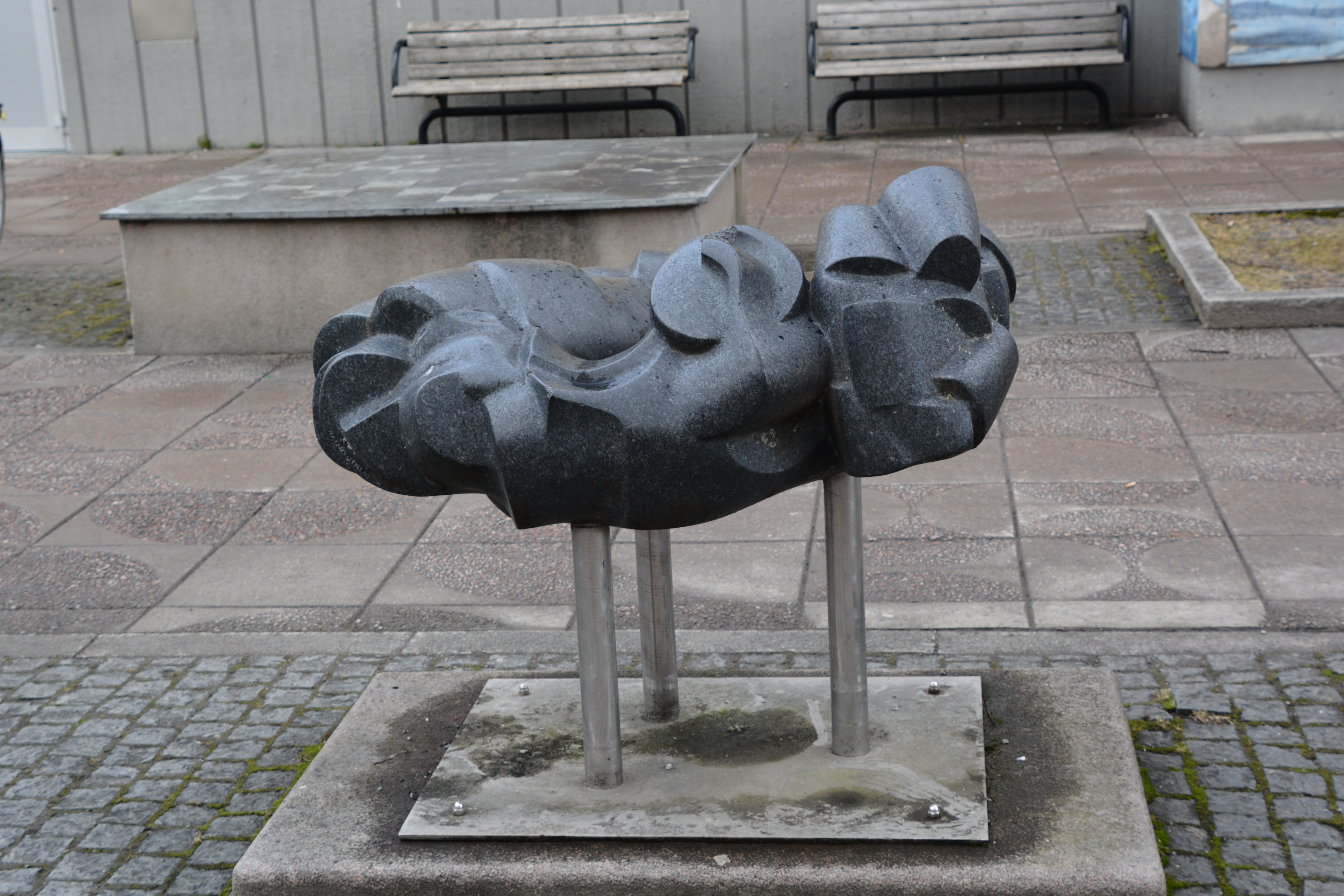 Skulptur av Raimo Utriainen i Tenstagången i Tensta, Stockholm, av Raimo Utrainen. Brons. Okänd titel, okänt årtal.